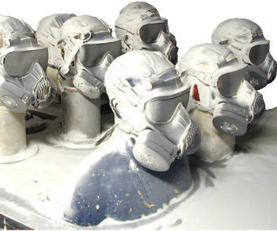 This image shows a number of masks undergoing climatic testing for qualification to environmental conditions.